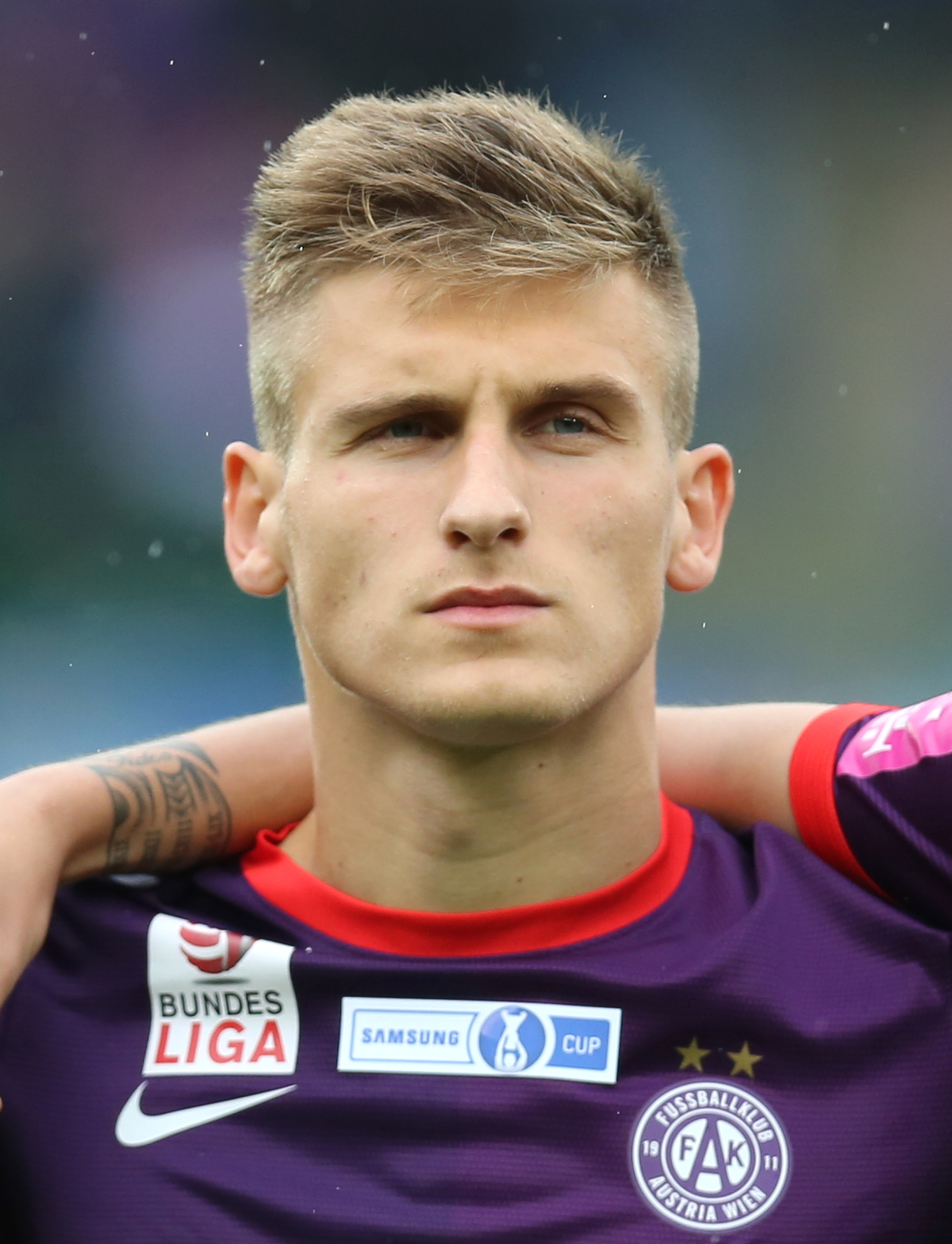 ÖFB-Cupfinale am 30. Mai 2013 im Ernst-Happel-Stadion (FC Pasching gegen FK Austria Wien 1:0). Im Bild der Mittelfeldspieler Emir Dillaver (FK Austria Wien). The making of this work was supported by Wikimedia Austria. For other files made with the support of Wikimedia Austria, please see the category Supported by Wikimedia Österreich.